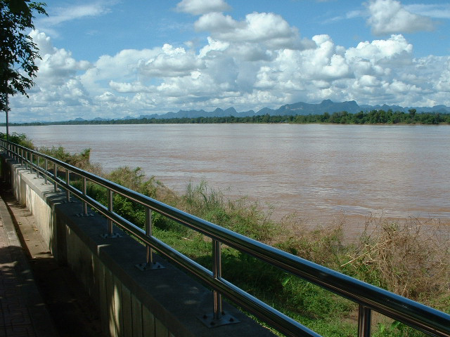 Mekong River in Nakhon Province. The opposite is Khammoun Province of Laos.